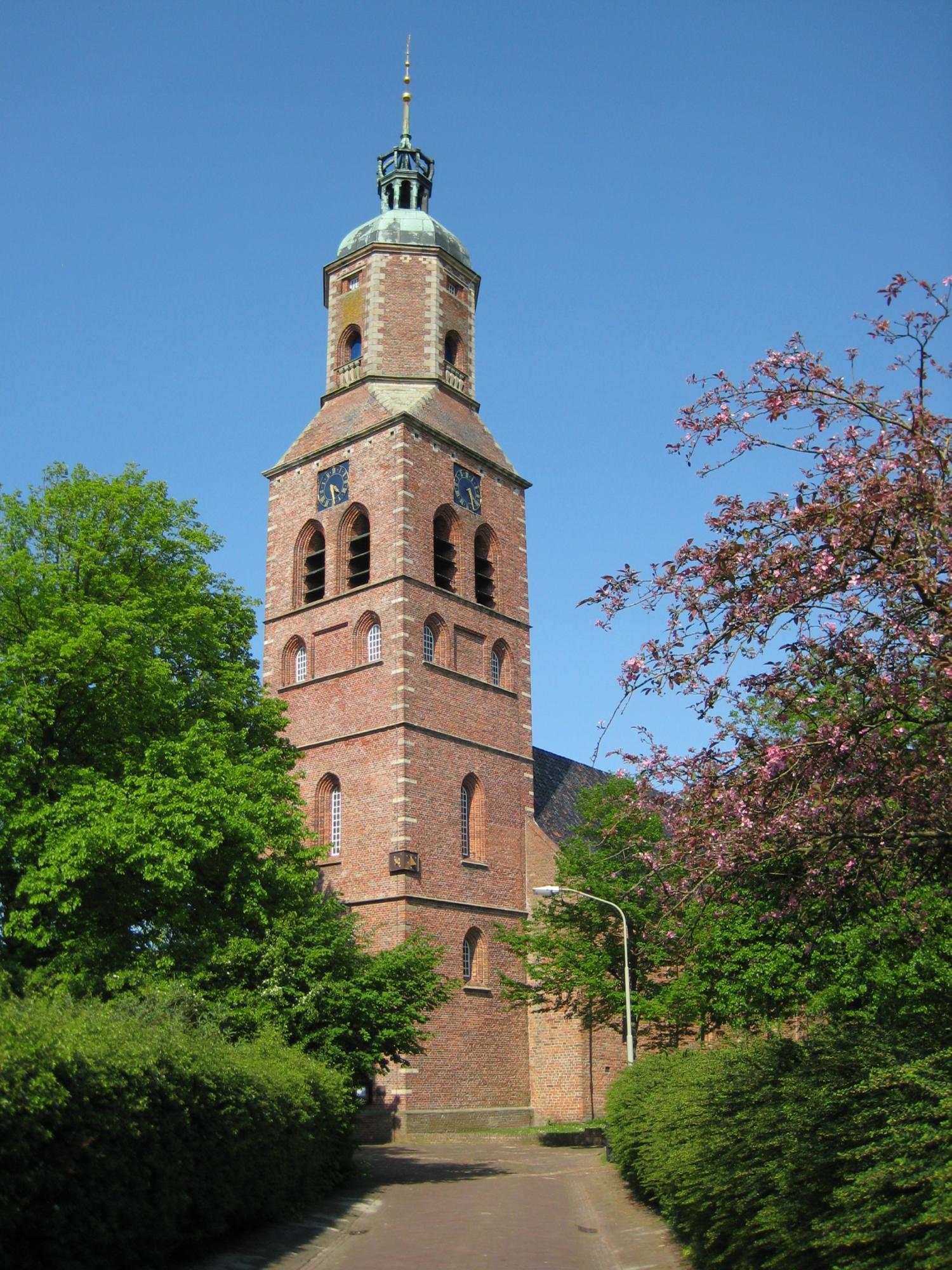 The church of Eenrum, a village in the Dutch province of Groningen